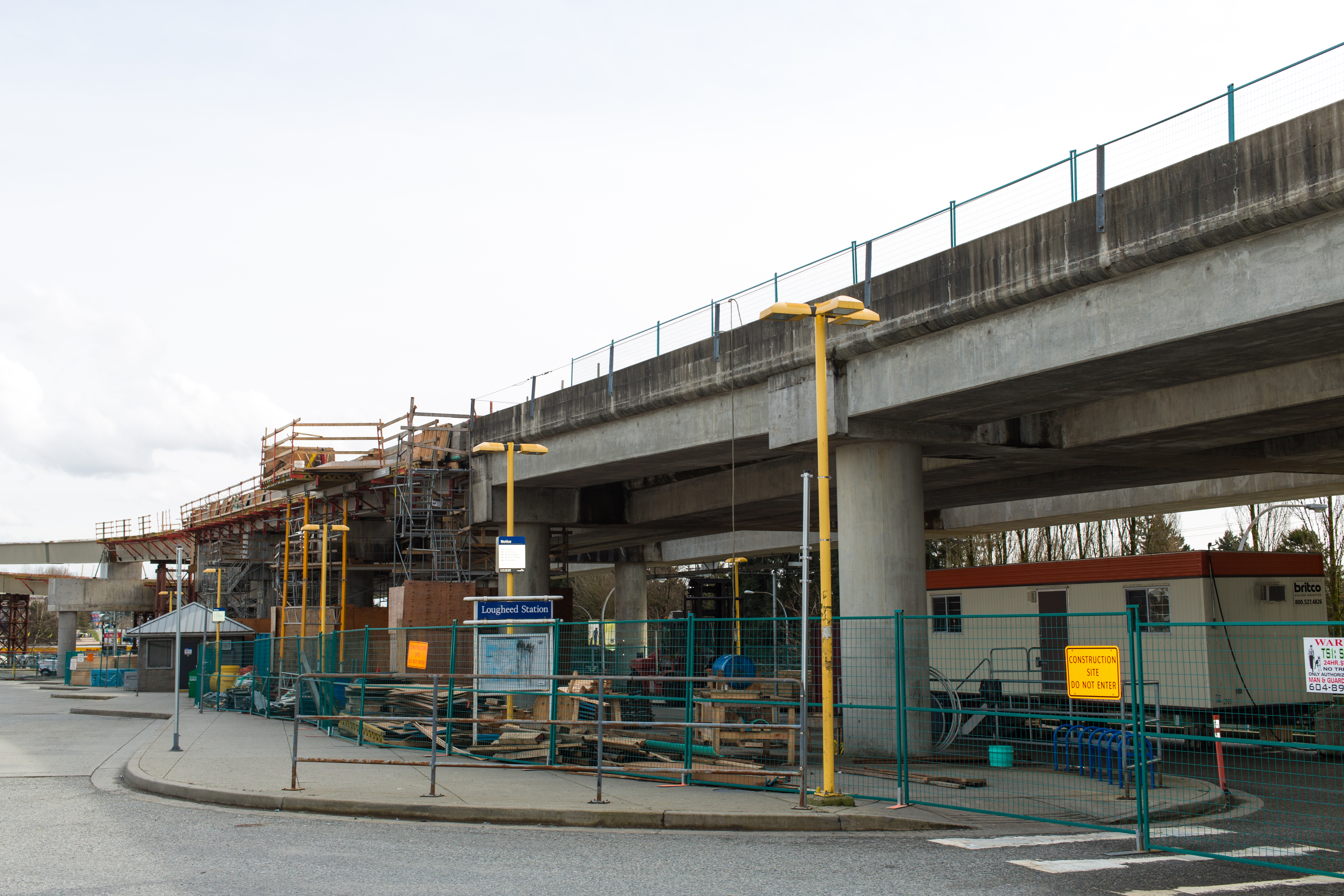 Translink's Evergreen Line (TransLink) under construction along North Road, in Burnaby, and Coquitlam British Columbia, Canada. March 9th, 2014.